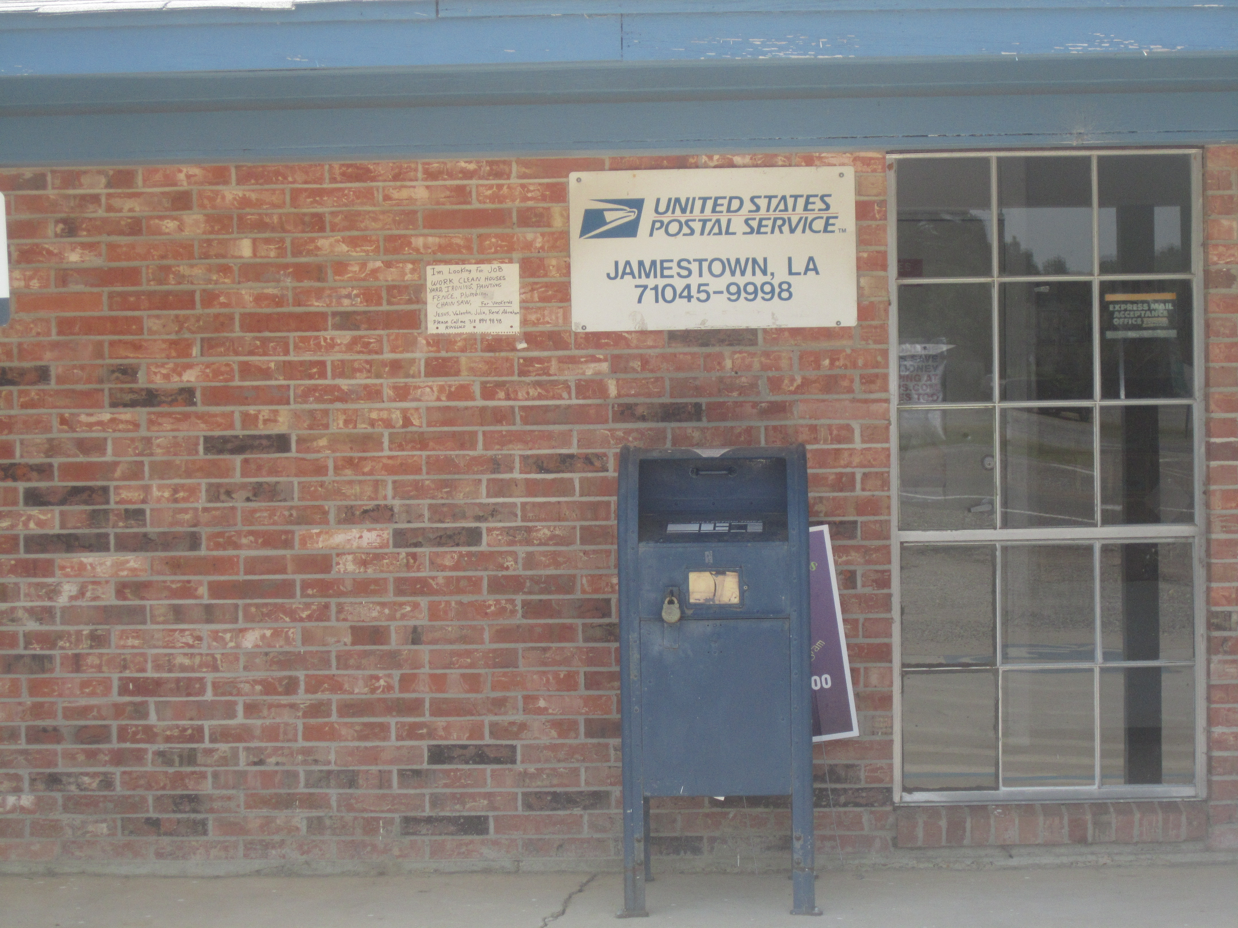 I took photo in Jamestown, LA, with Canon camera.